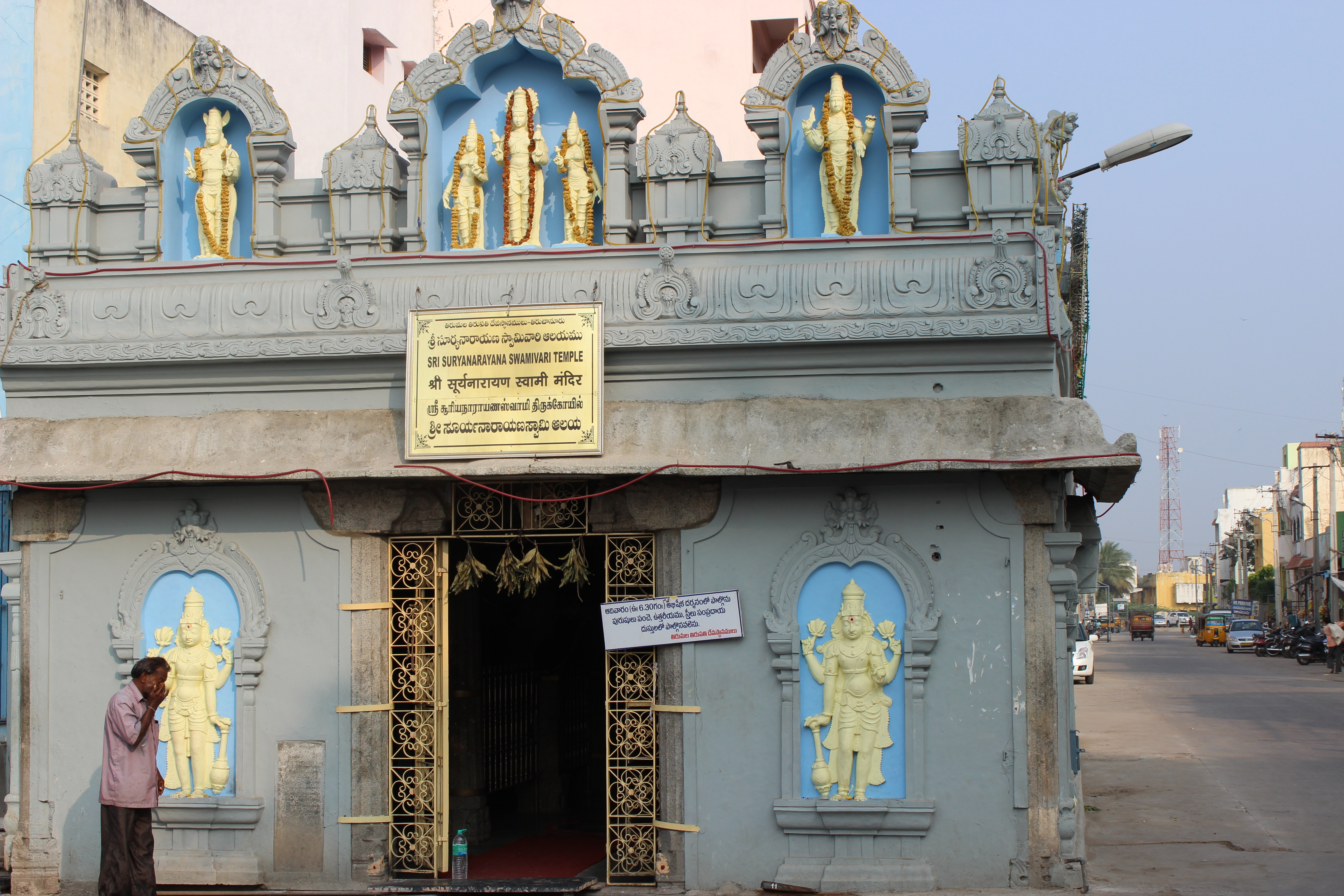 Thiruchanur